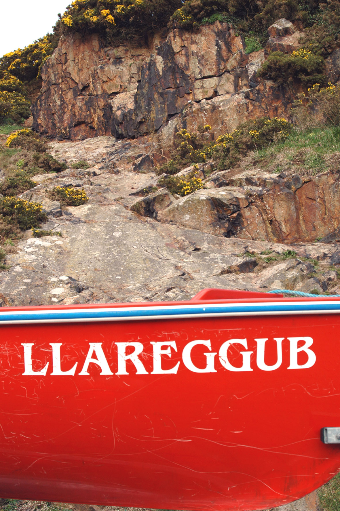 Dylan Thomas's fictitious village name of Llareggub, in Dylan's Under Milk Wood, as the name of a boat, seen here moored in harbour of Old Town, Fishguard, Wales, where the Under Milk Wood was filmed.